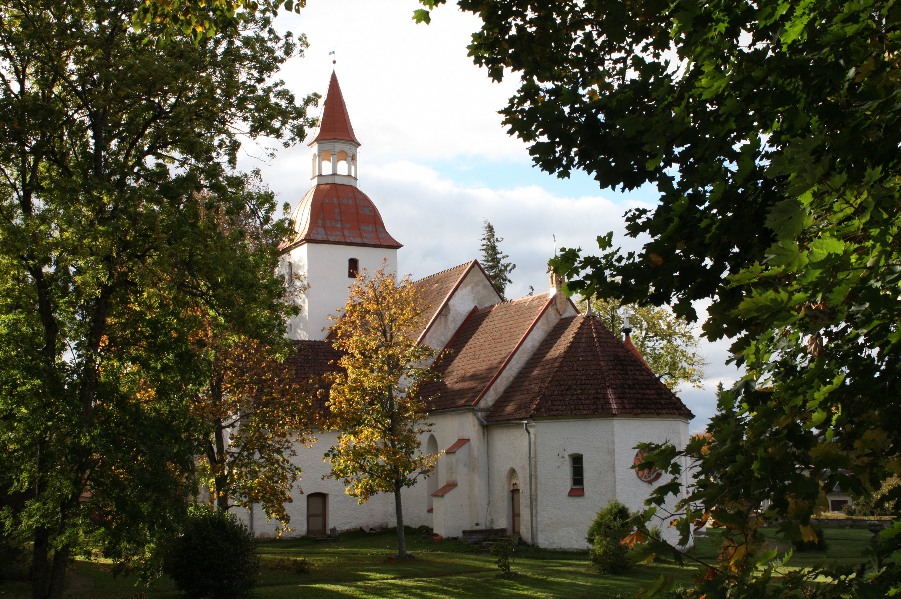 Kuusalu church